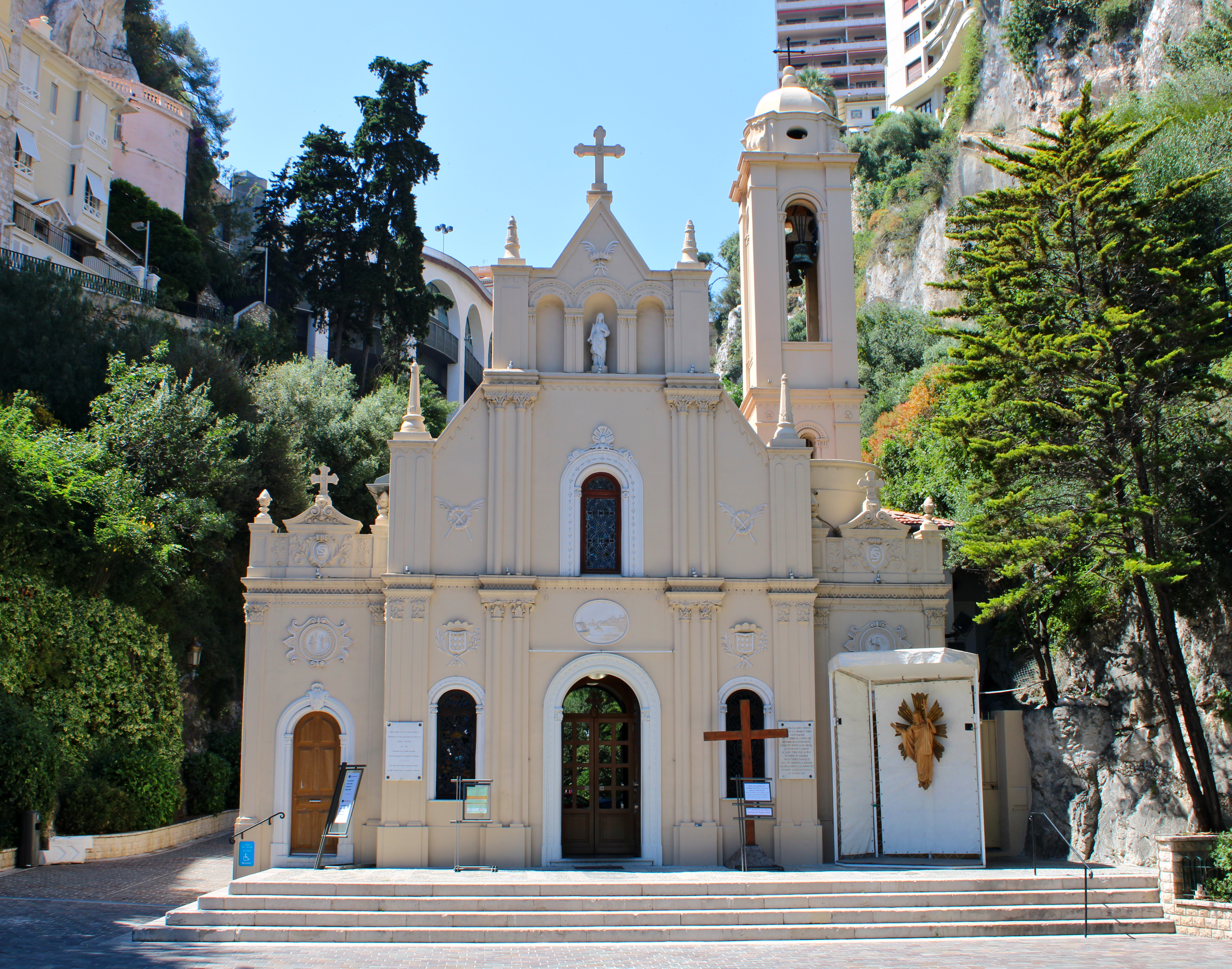 Église de Saint-Dévote Monaco